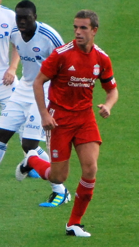 Jordan Henderson during pre-season friendly Vålerenga v. Liverpool on 1st August 2011 at Ullevål. Result: 3-3.